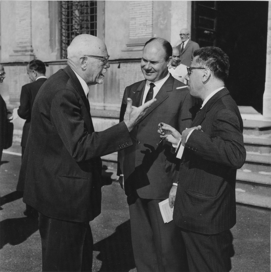 A picture take at the International Symposium on Algebraic Geometry, held in Rome from On the foreground, from left to right: Enrico Bompiani talking with Giovanni Battista Rizza and Vittorio Dalla Volta. On the background, from left to right: Beniamino Segre (only part of his figure and face is visible) talking with Enzo Martinelli, while Giovanni Ricci (near the palace's doors) is going downstairs. Some day between the 30th of September and the 6th of October 1965.